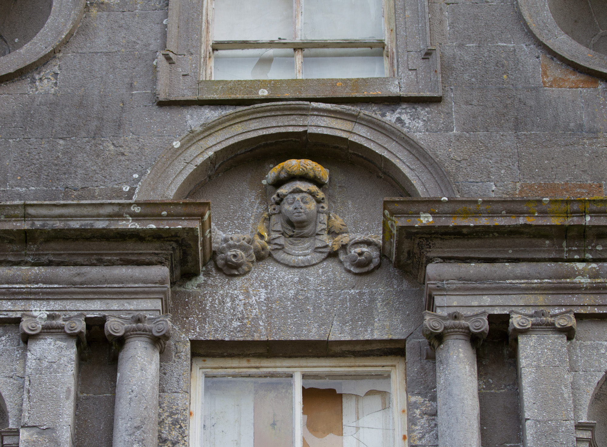 Head above doorway at Hazelwood house.